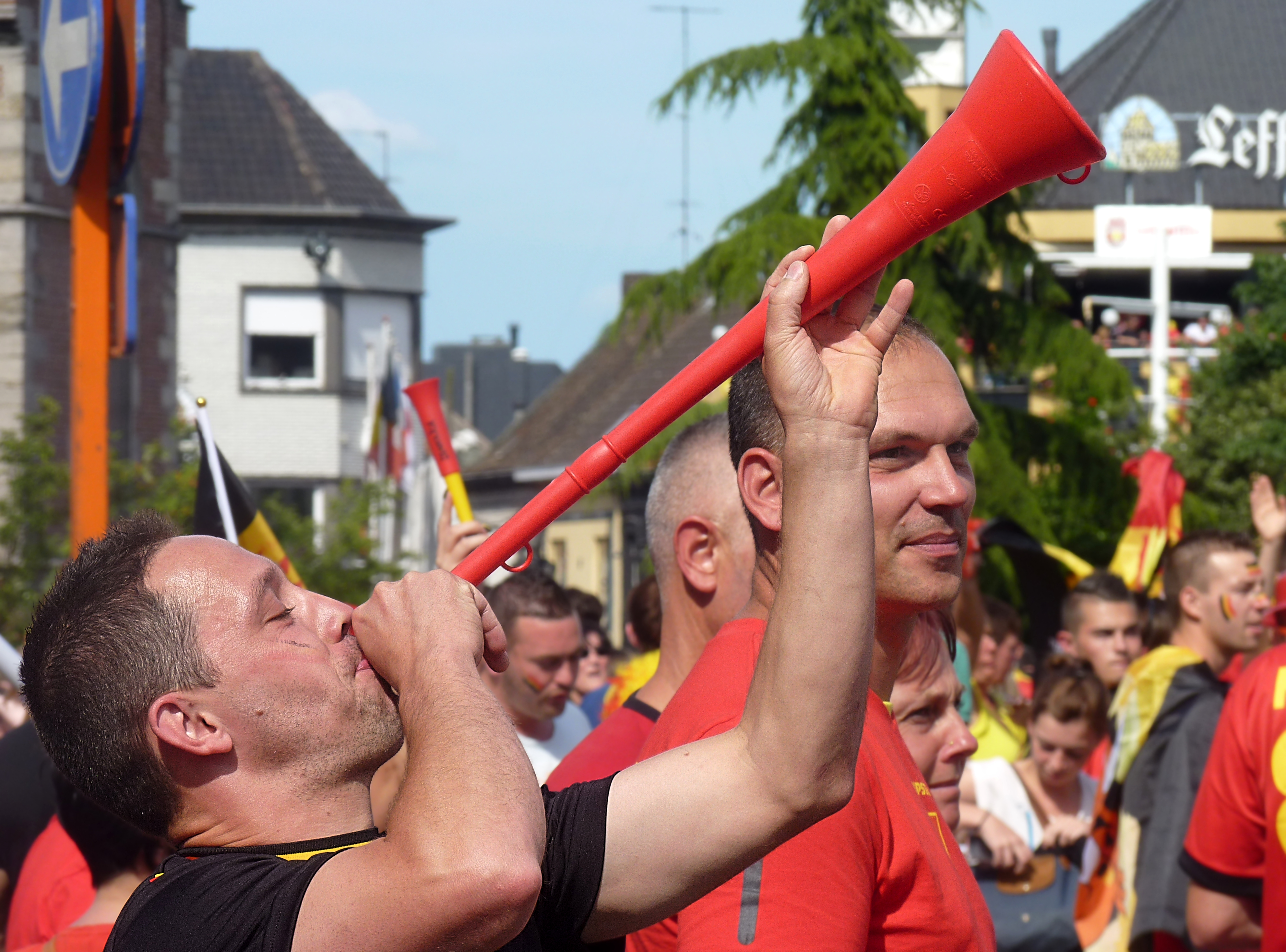 Supporter of the Belgian national football team with vuvuzela, photo taken on the town square of Mouscron, Belgium before the match Belgium - Russia of the world cup 2014 broadcast on large screen.